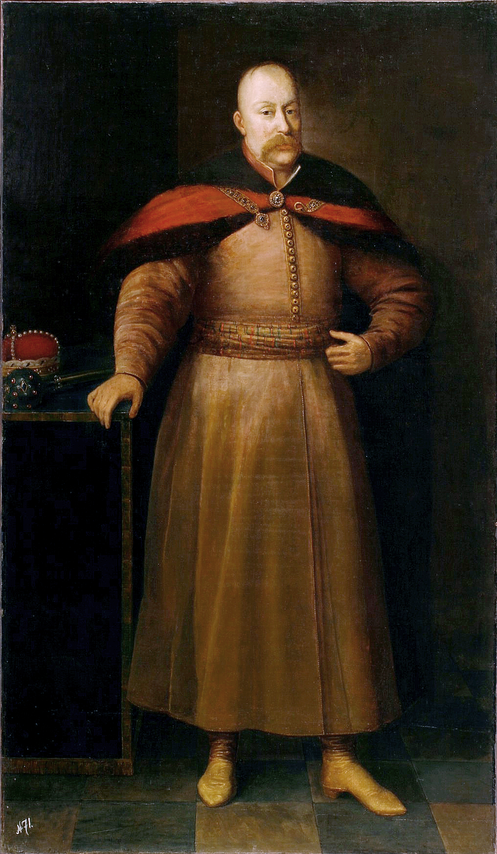 Portrait of Janusz Radziwiłł (1612–1655)